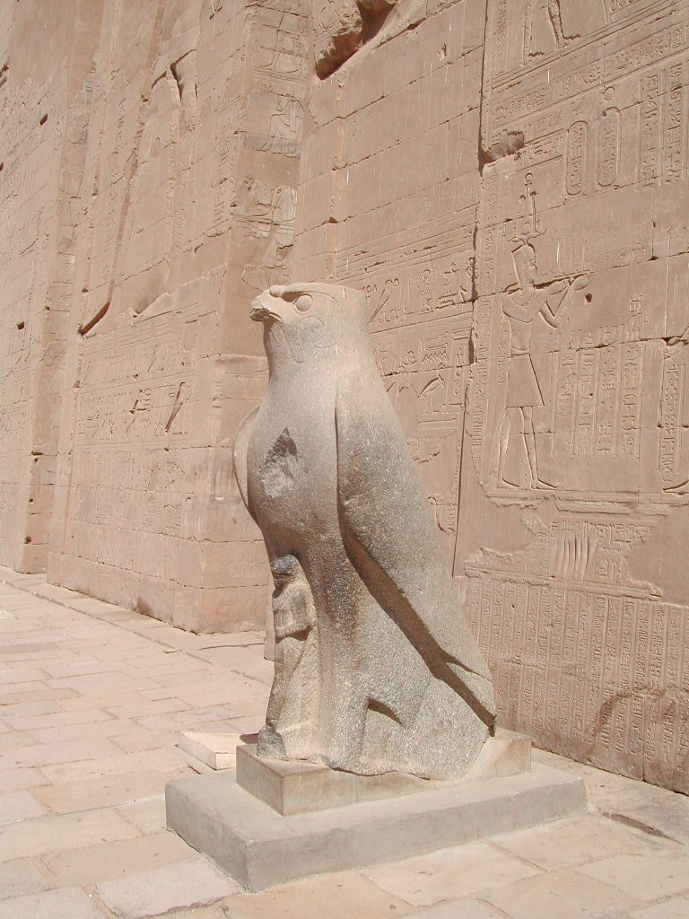 Statue of Horus in Edfu Temple